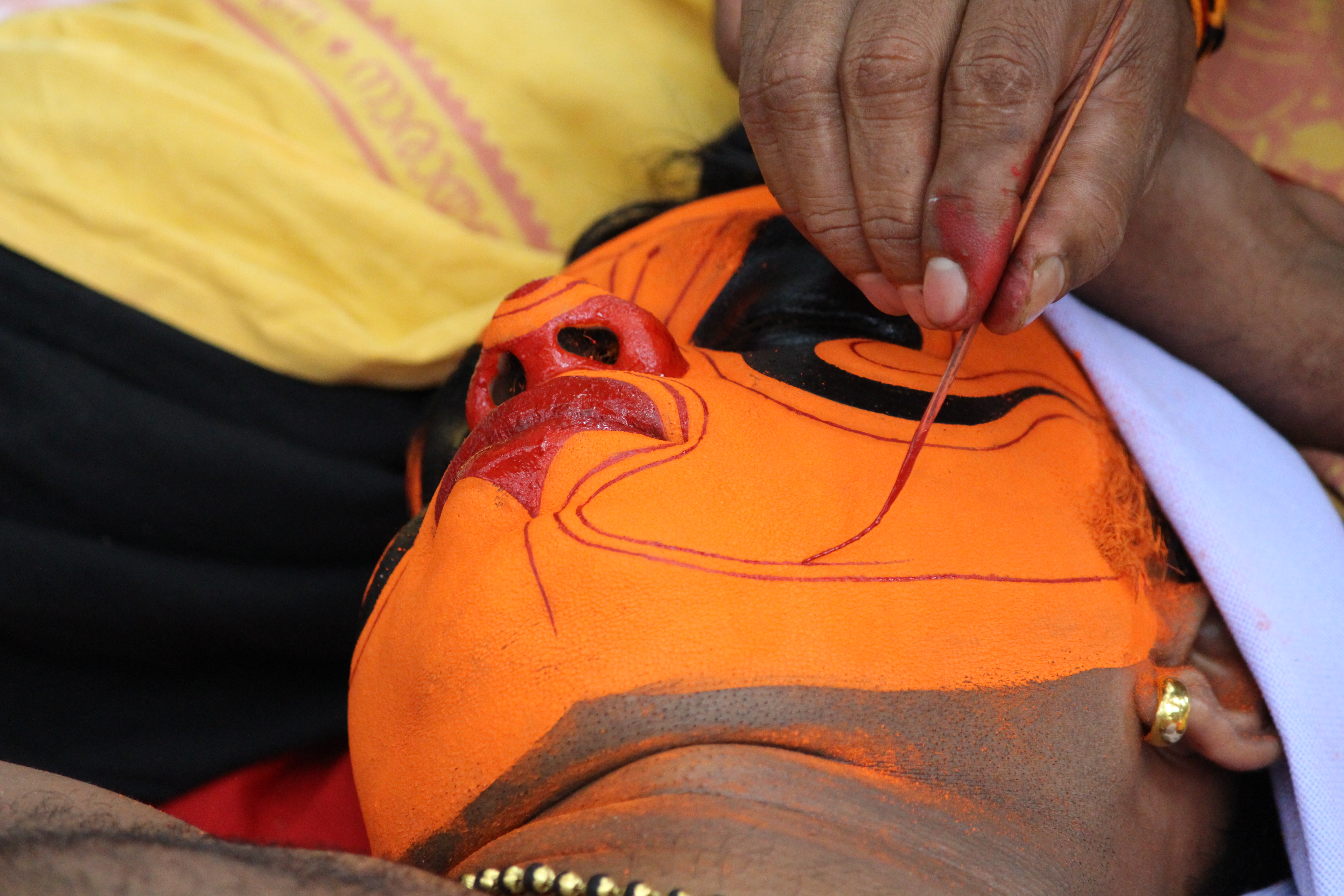 Nagakkali Theyyam - Mukhathezhuthu - Makeup